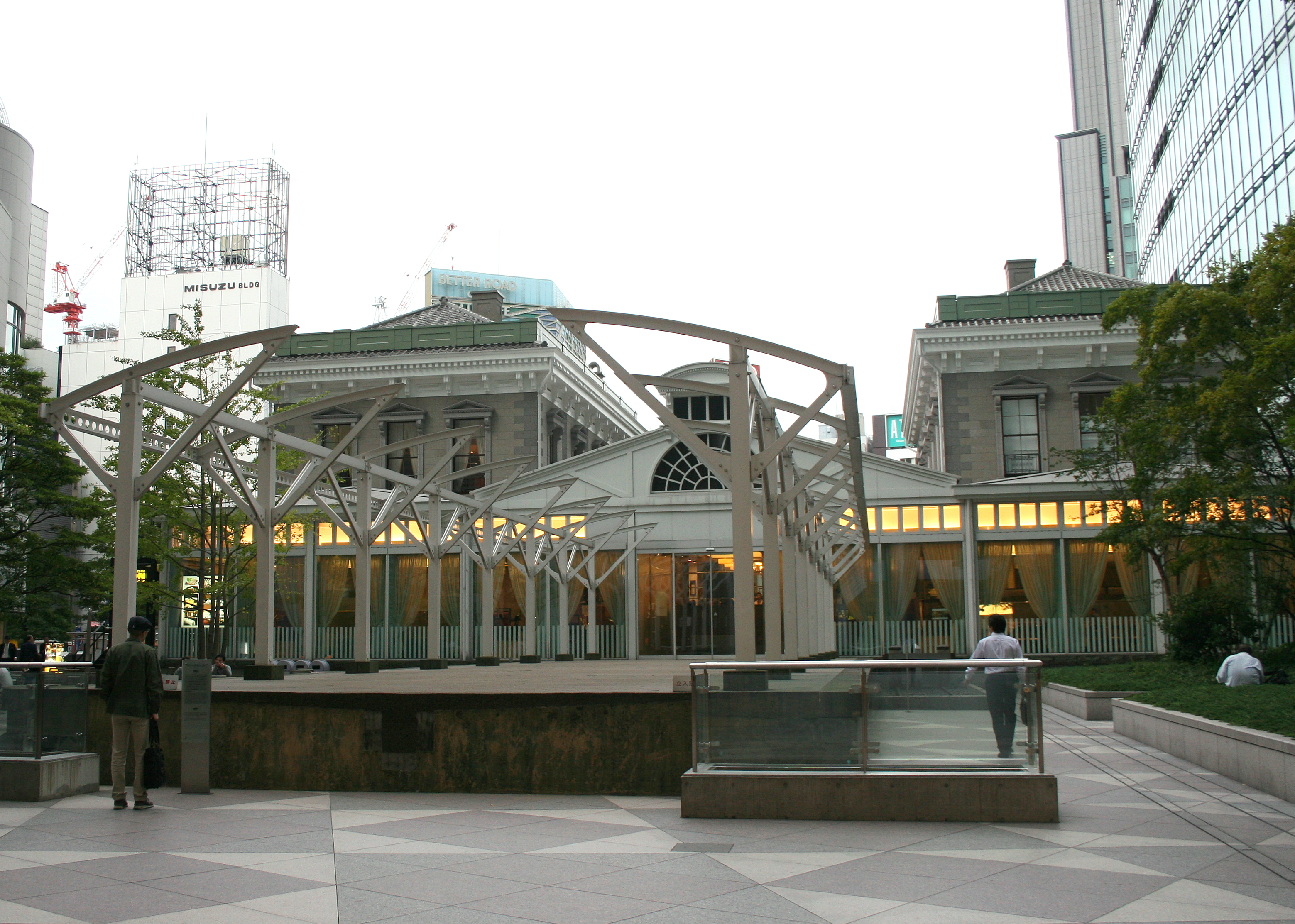 Reproduction of the original Shimbashi Station (originally built in 1872) in Tokyo (platform side)